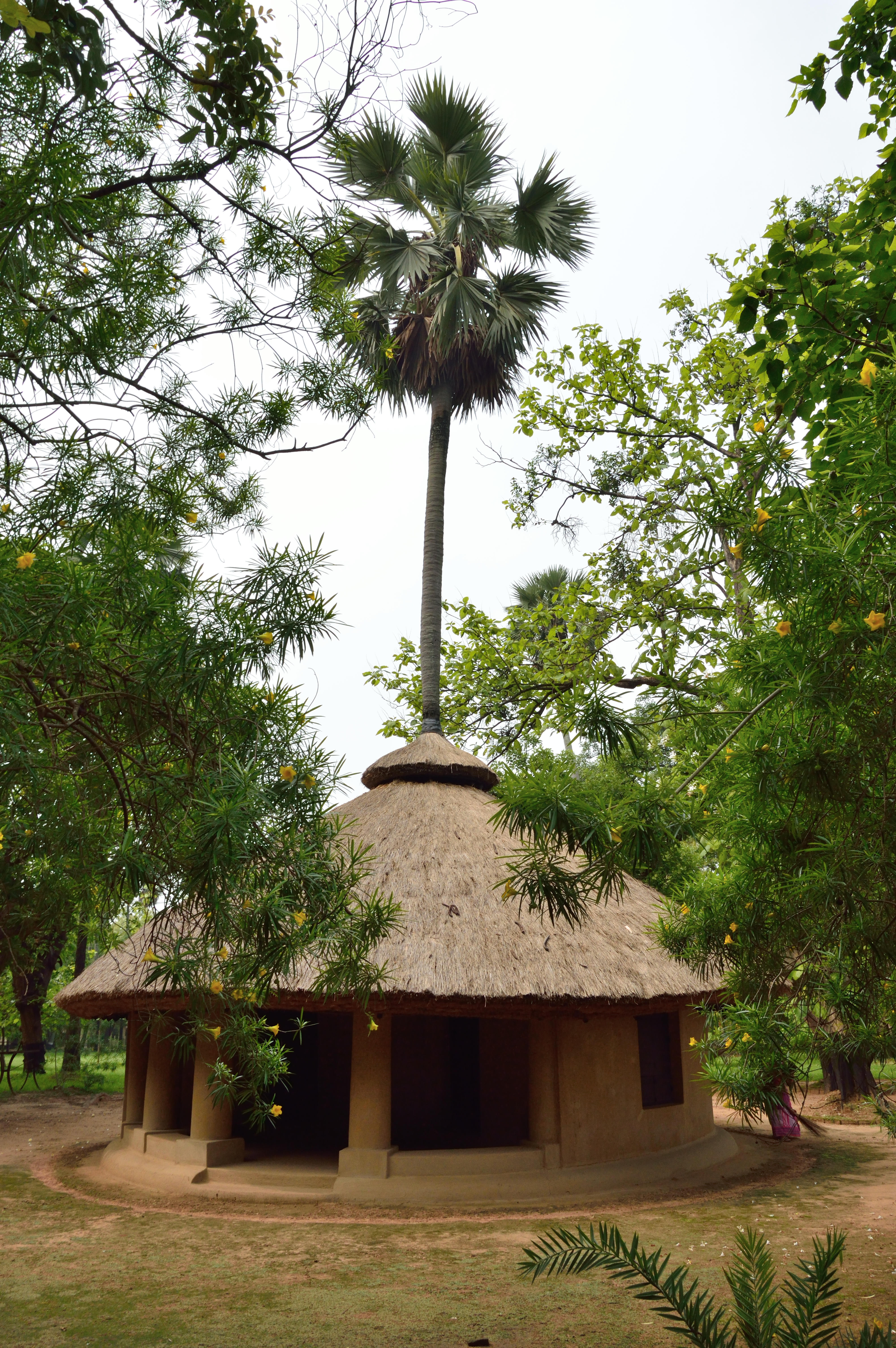 The Taladhwaj, a round mud hut with a thatched roof built around a taal tree (toddy palm) with part of its trunk and its huge palm leaves stretching out over the top, was built for Tejeschandra Sen, a treelover who would even share his lodging with one. Photographed at The Visva-Bharati University complex, Santiniketan.